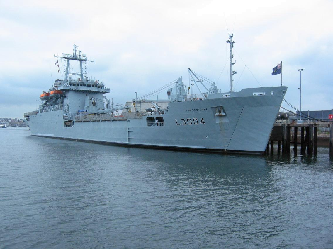 RFA Sir Bedivere, British naval vessel (Landing Ship Logistic, Round Table class)